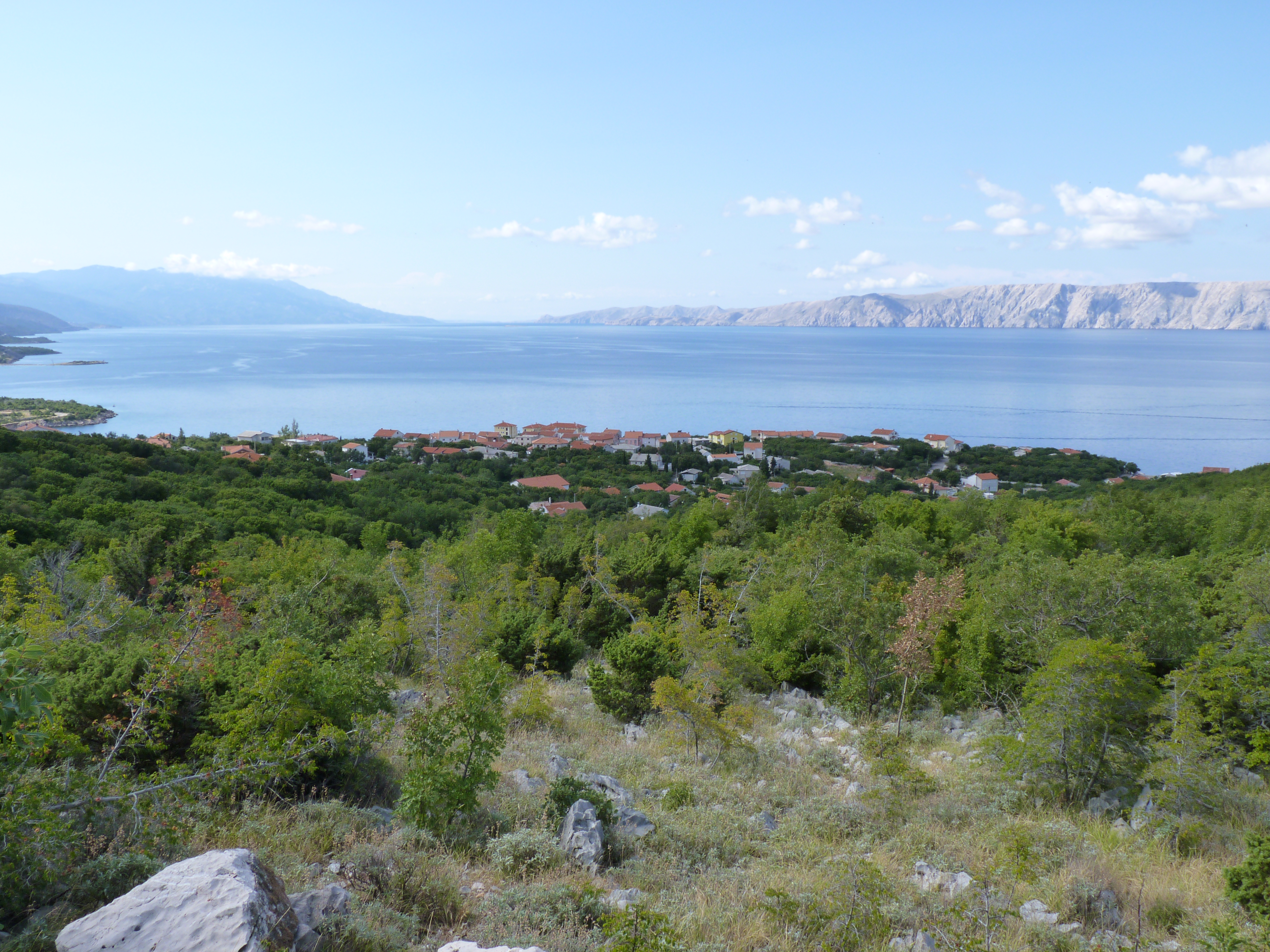 Povile, Primorje-Gorski Kotar County, Croatia